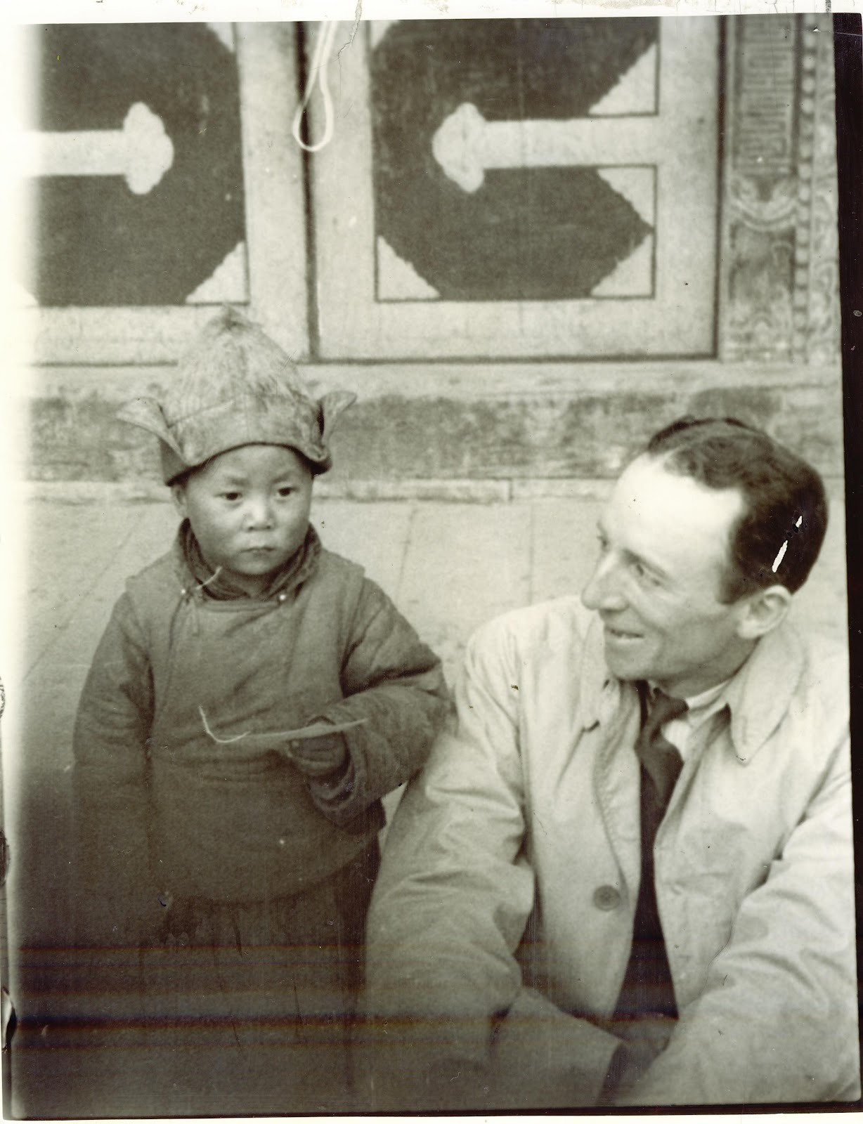 Dalai Lama and A.T. Steele.